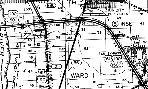 US 61/190 is shown as going down the current business routes; Plank Road is State Route 36 and 61/190 BUS is State Route 3. The current bypass is State Route 1500.